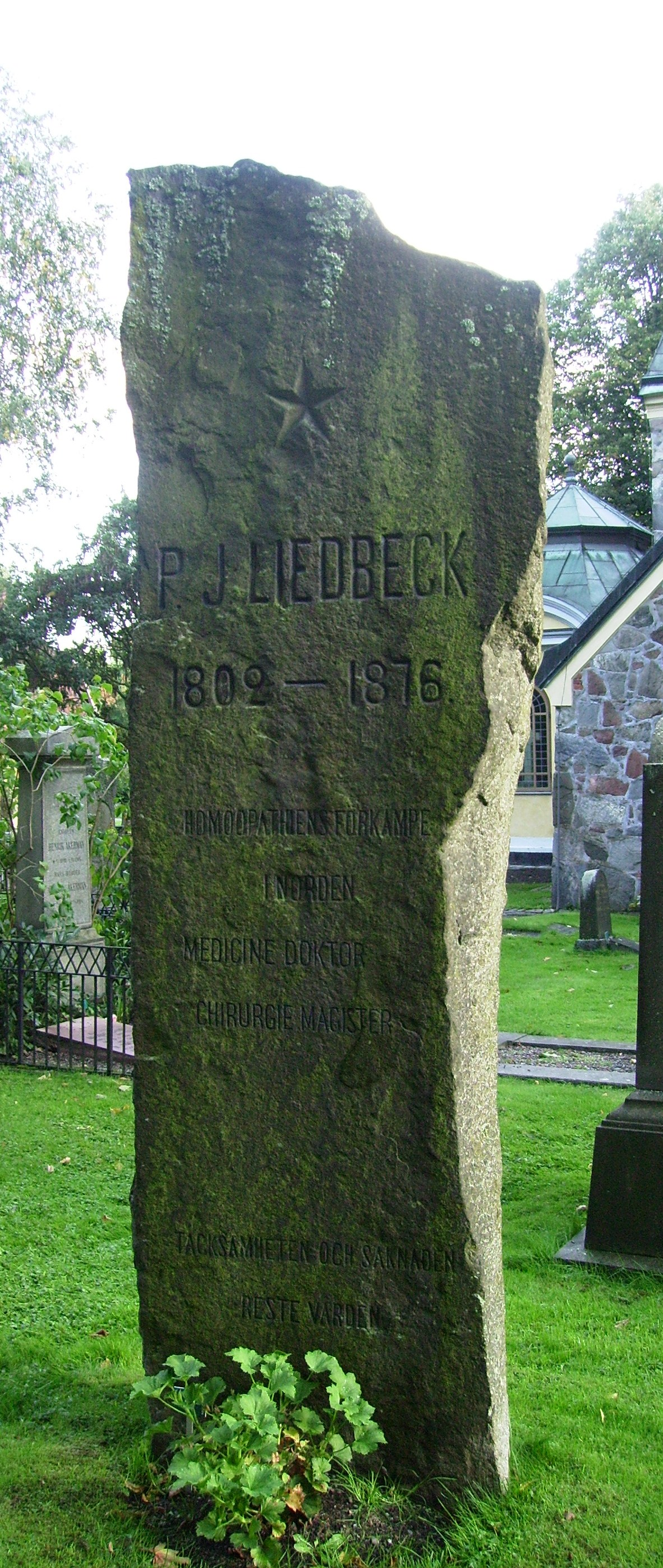 Picture of Per Jacob Liedbeck's grave at Solna kyrkogård